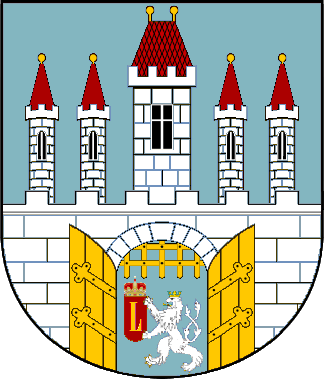 Coat of arms of Mala Strana, Prague.